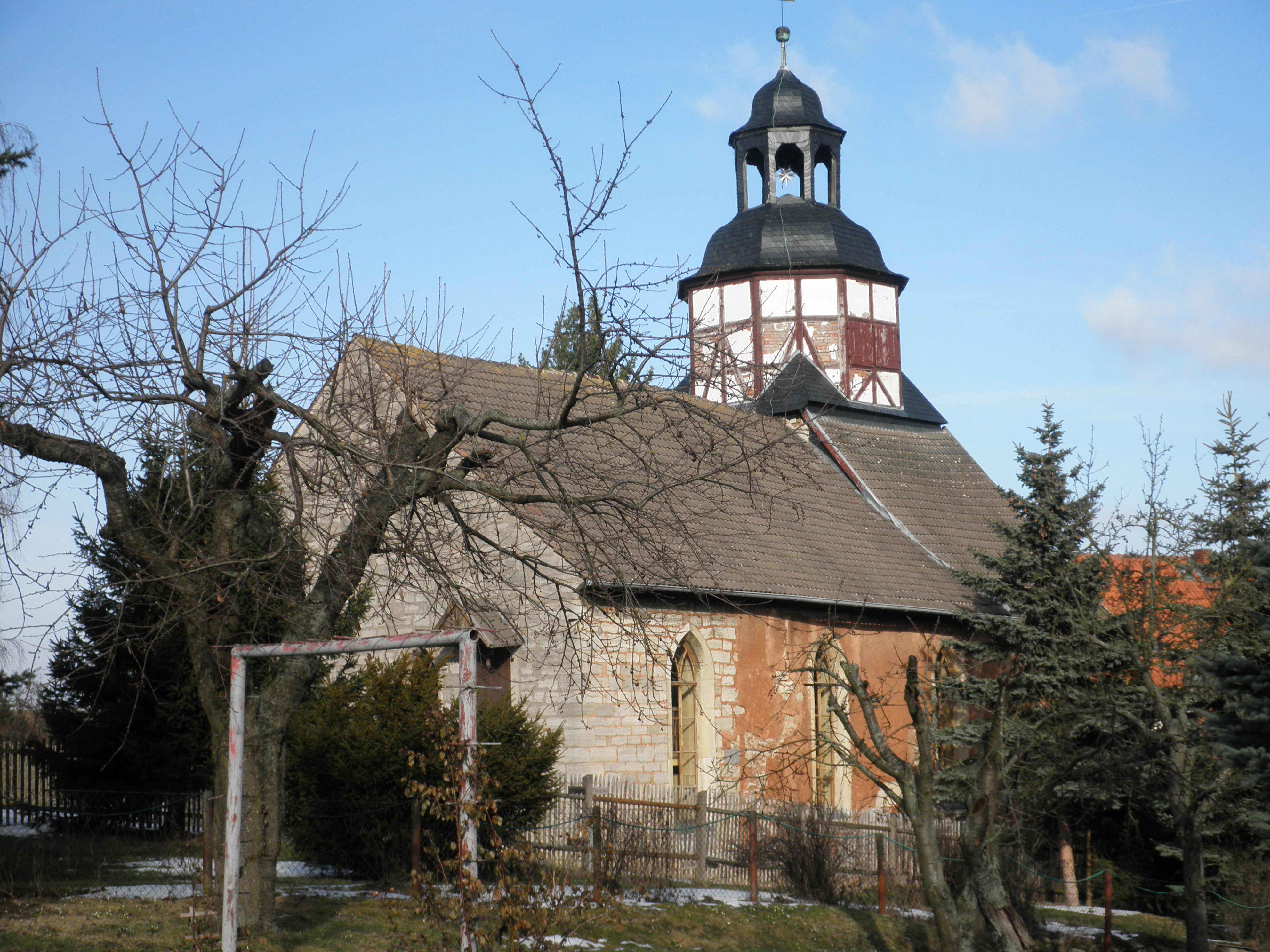 Church in Hainrode (Hainleite) in Thuringia